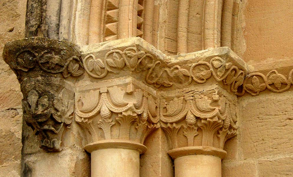 It is a image of the Església de Santa Maria de Rubió